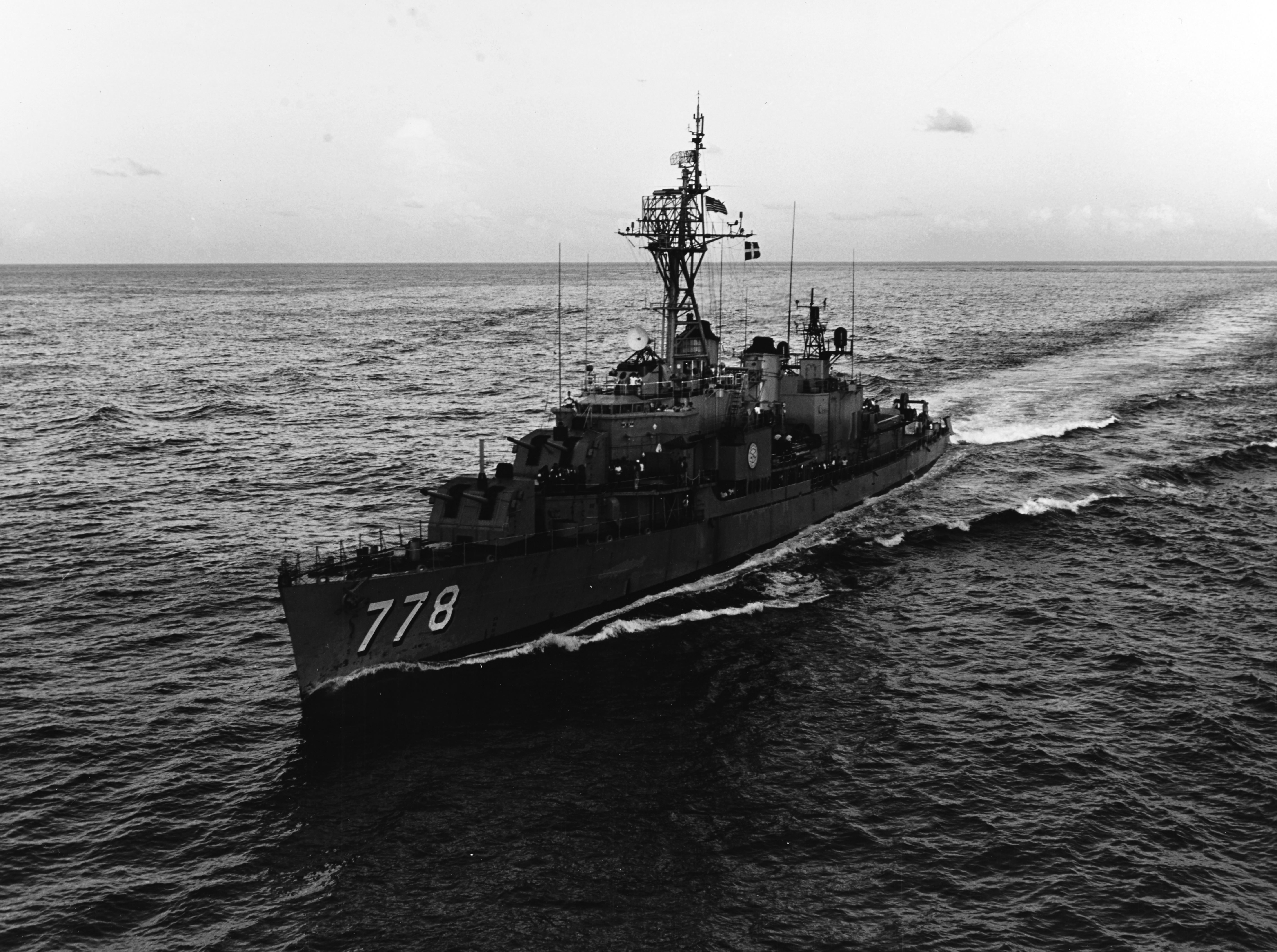 The U.S. Navy destroyer USS Massey (DD-778) comes alongside of the aircraft carrier USS Kitty Hawk (CVA-63) for underway refueling, during operations in the Western Pacific area, on 6 April 1966.